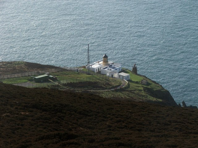 Mull of Kintyre Lighthouse.